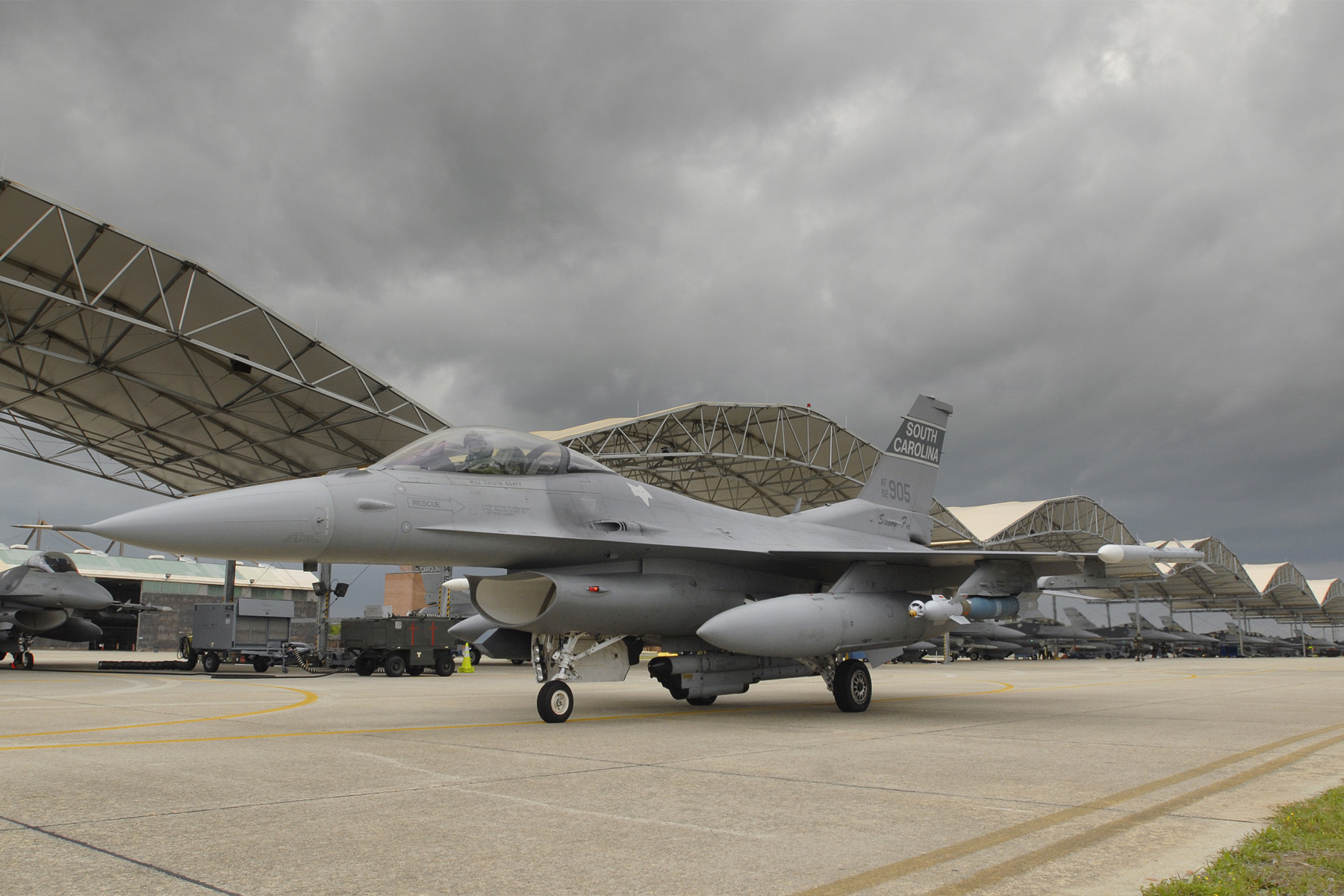 An F-16 Fighting Falcon aircraft from the 157th Fighter Squadron, South Carolina Air National Guard taxies for takeoff during a phase II operational readiness evaluation at McEntire Joint National Guard Base, S.C., April 12, 2008. The evaluation tests a unit's ability to launch missions while in a chemical warfare environment. (U.S. Air Force photo by Master Sgt. Marvin R. Preston) (Released)